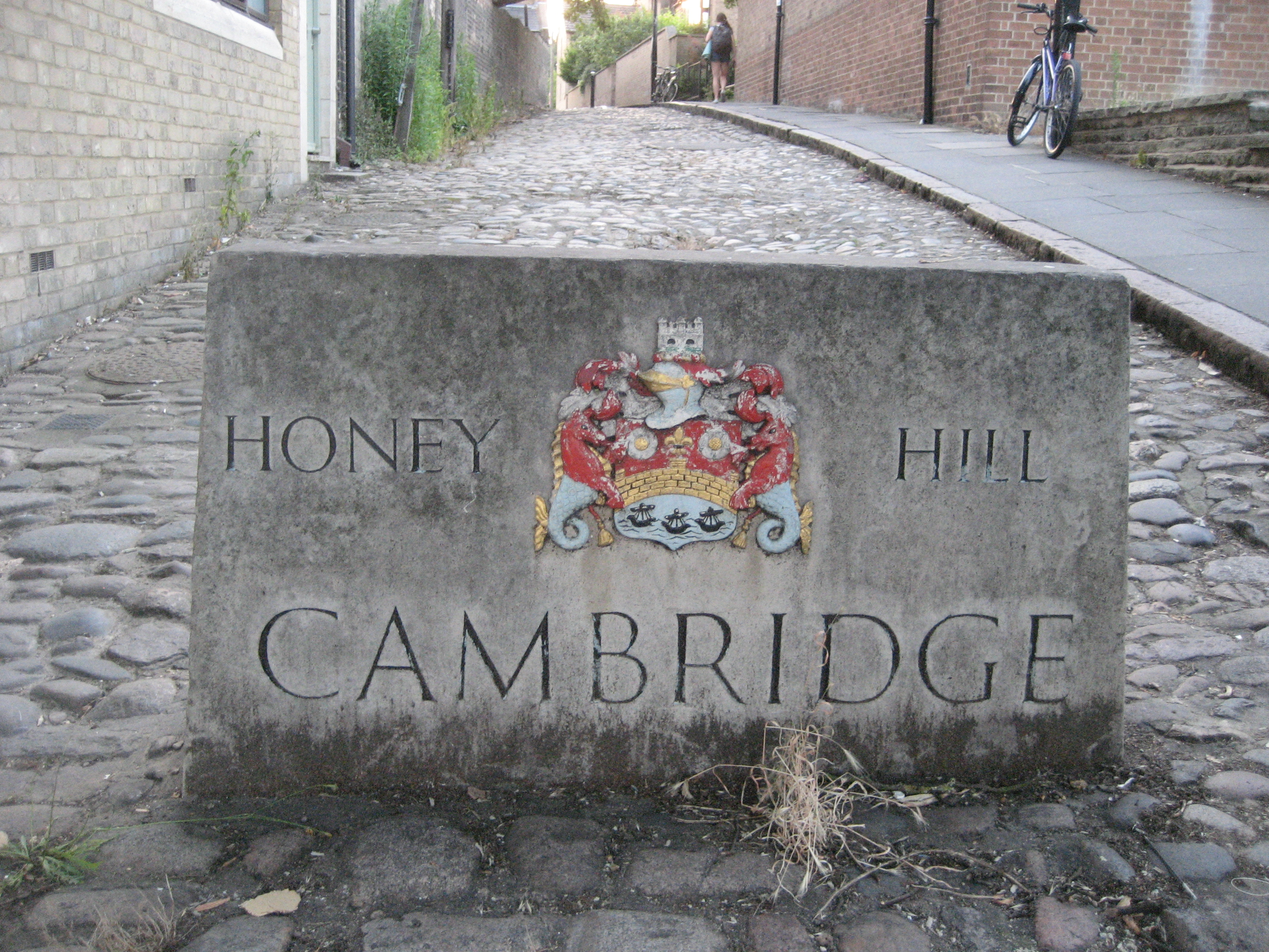 Honey Hill, Cambridge